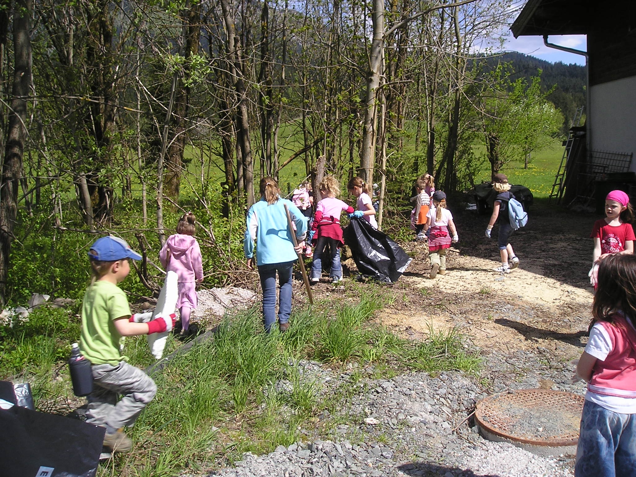 Clean Up Austria 2008